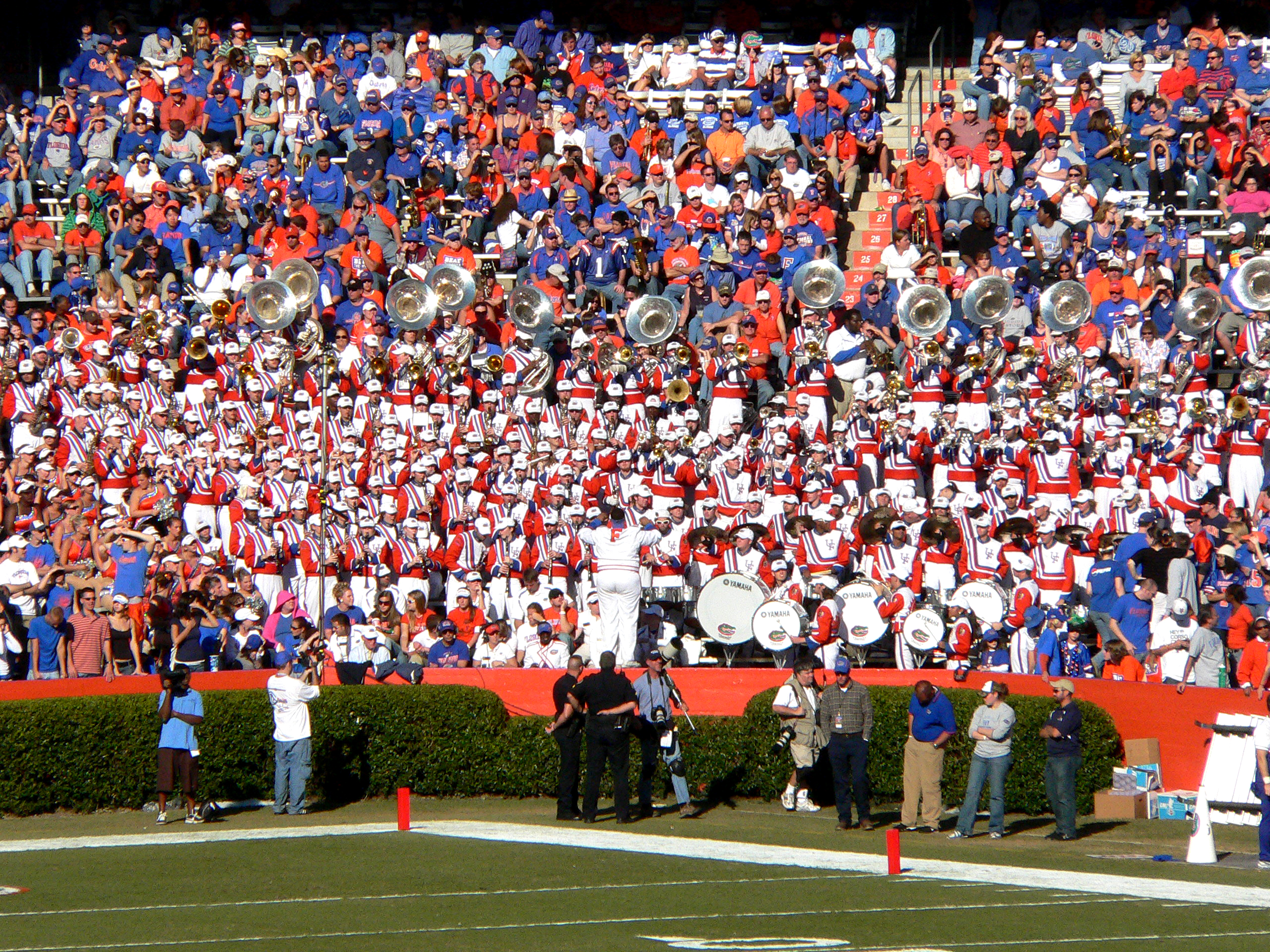 This is a picture of the "Pride of the Sunshine" Fightin' Gator Marching Band, the marching band of the University of Florida.